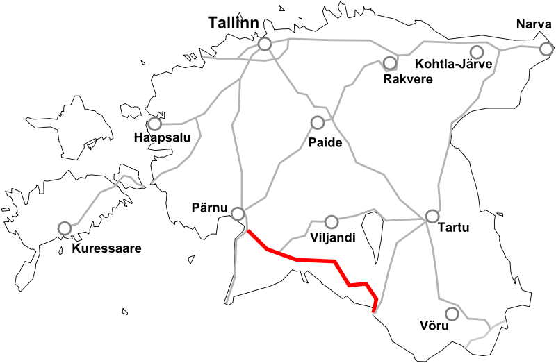 Map of Estonian national road 6, white background. Bigger cities marked.